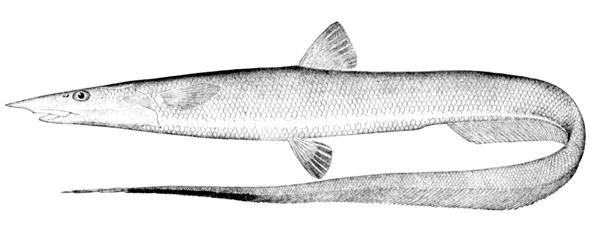 Gilbert's halosaur, Aldrovandia affinis. The type specimen collected by the steamer “Blake” at Station CLXXIII, in 24° 36′ N 84° 05′ W at depth of 955 fathoms (ca. 1.74 km).